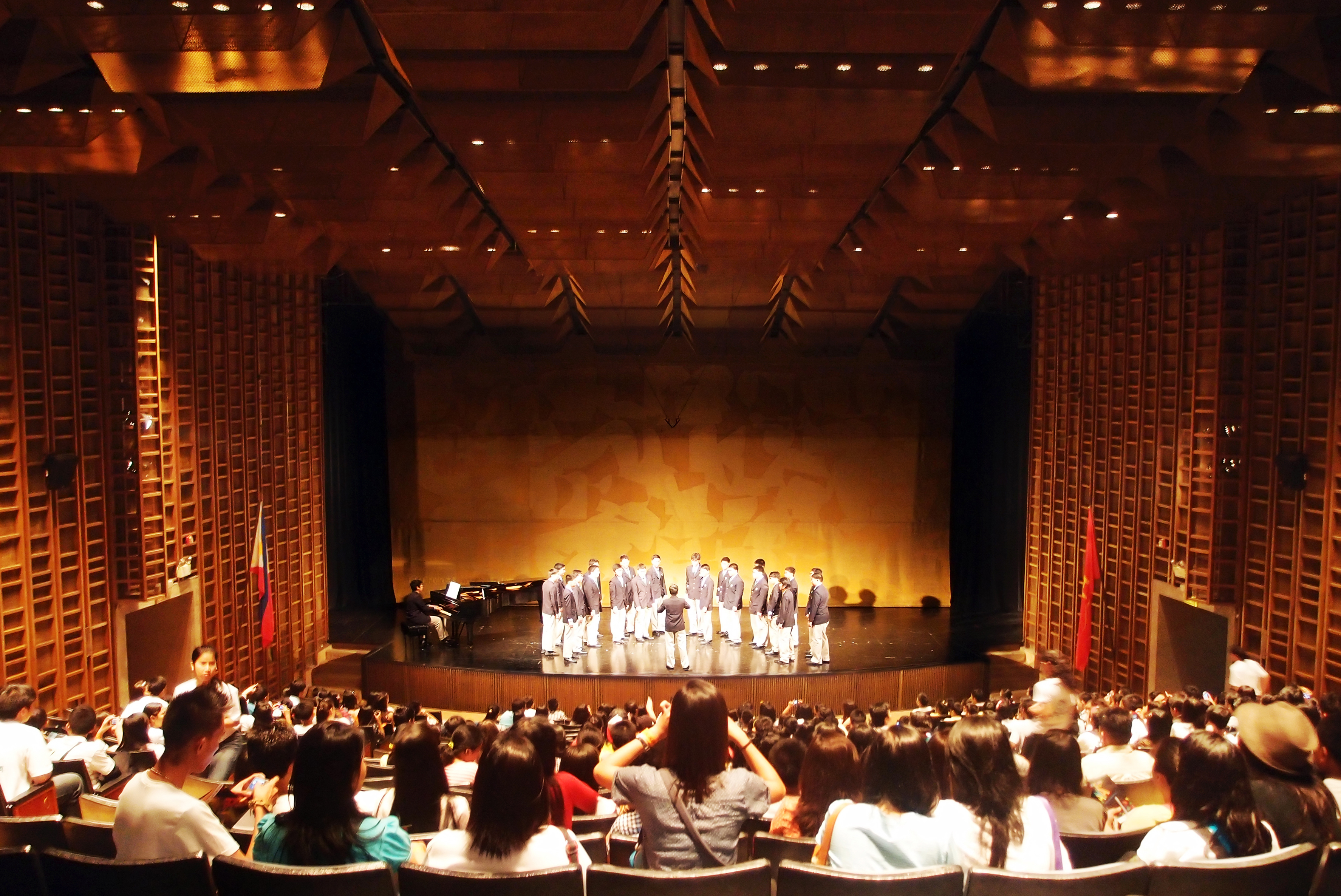 Little Theater of the Cultural Center of the Philippines. Curtain is based on a design by Roberto Chabet.